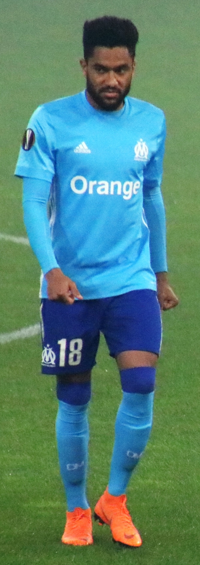 UEFA Euroleague semifinal 2nd leg